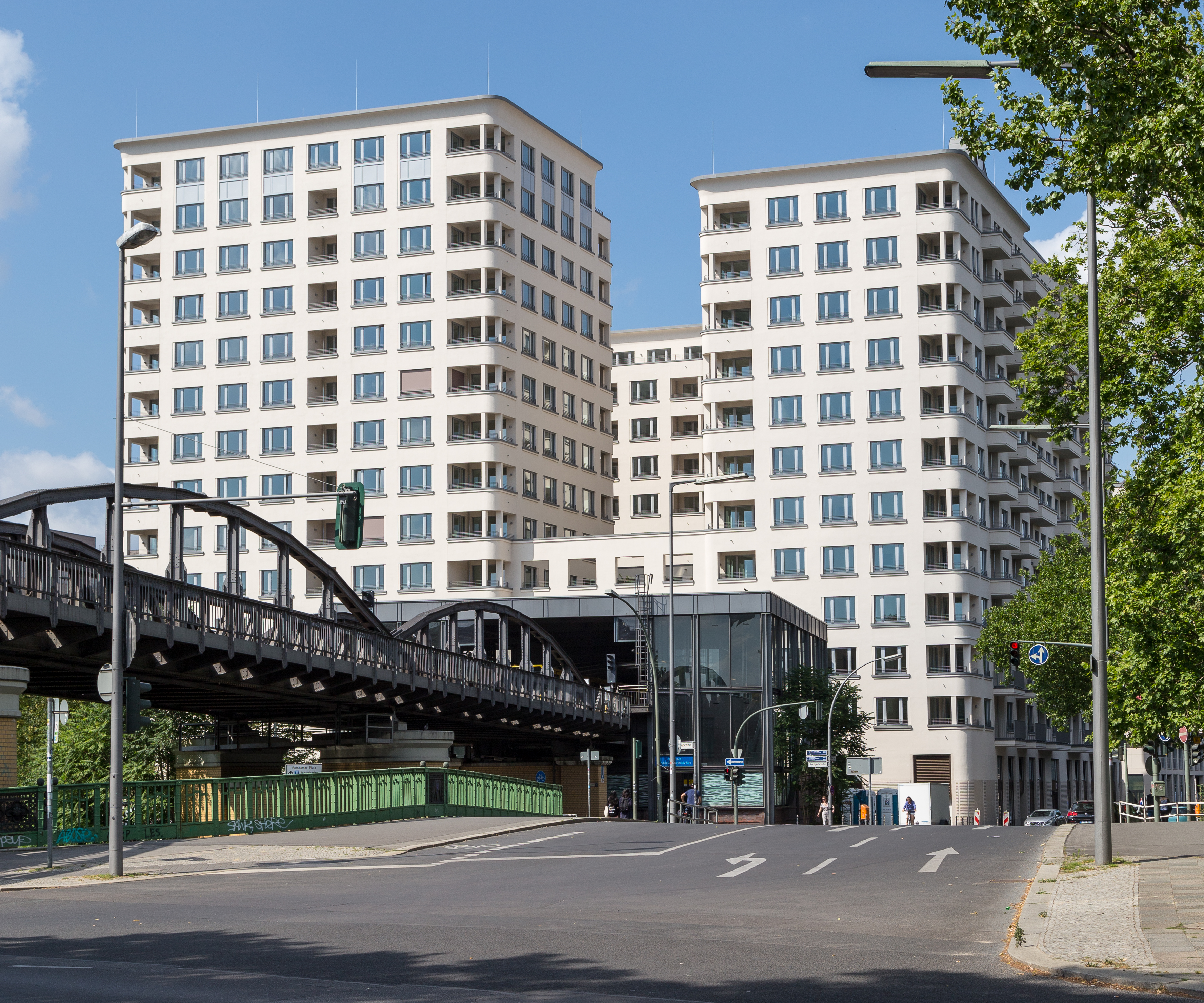 Southern part of Mendelsohn-Bartholdy-Park U-Bahn station and the elevated track with the Köthen bridge (Köthener Brücke) over the Landwehr canal; Berlin, Germany